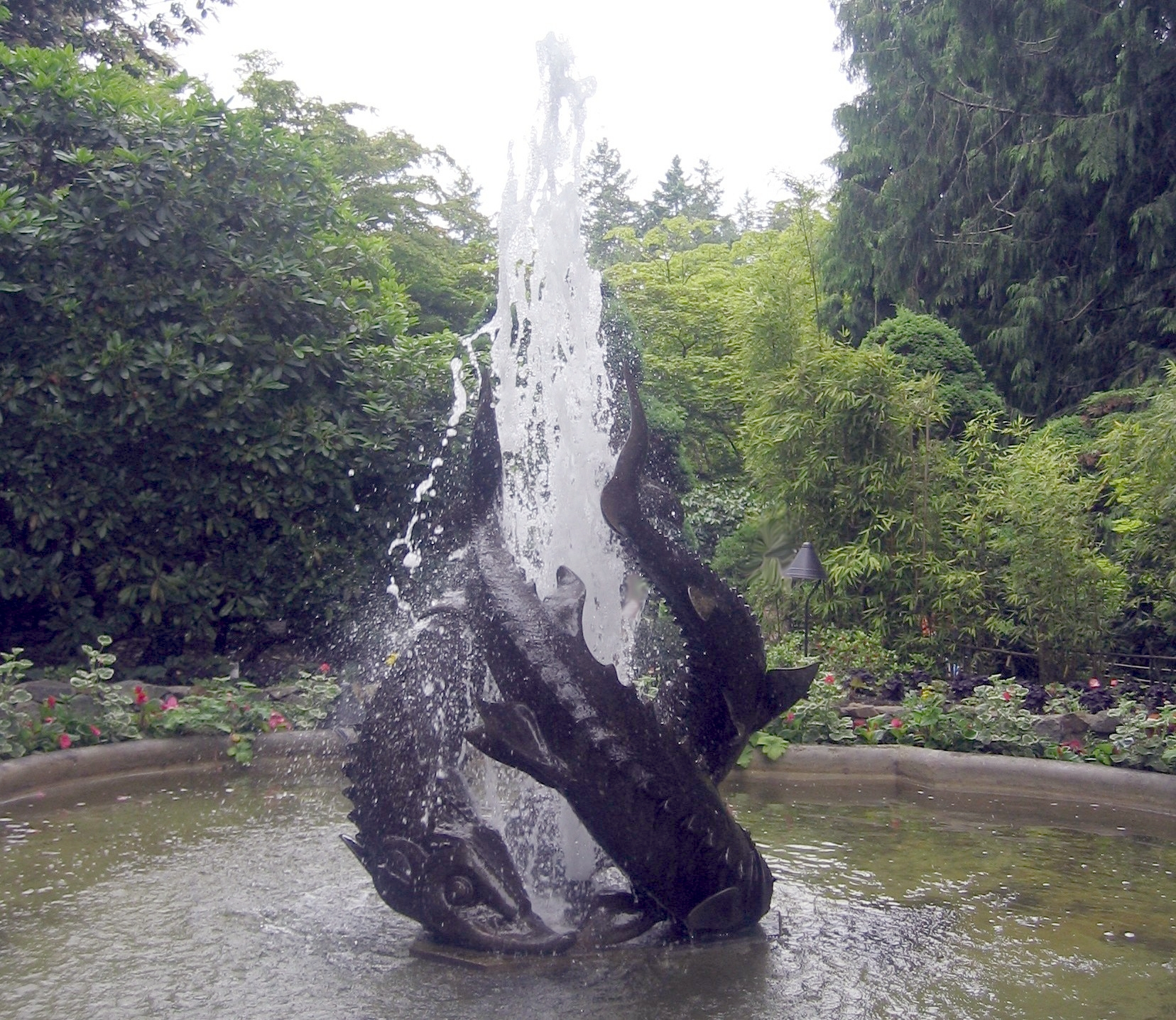 Photo of Fountain of the Three Sturgeons in The Butchart Gardens, Victoria BC, Canada.